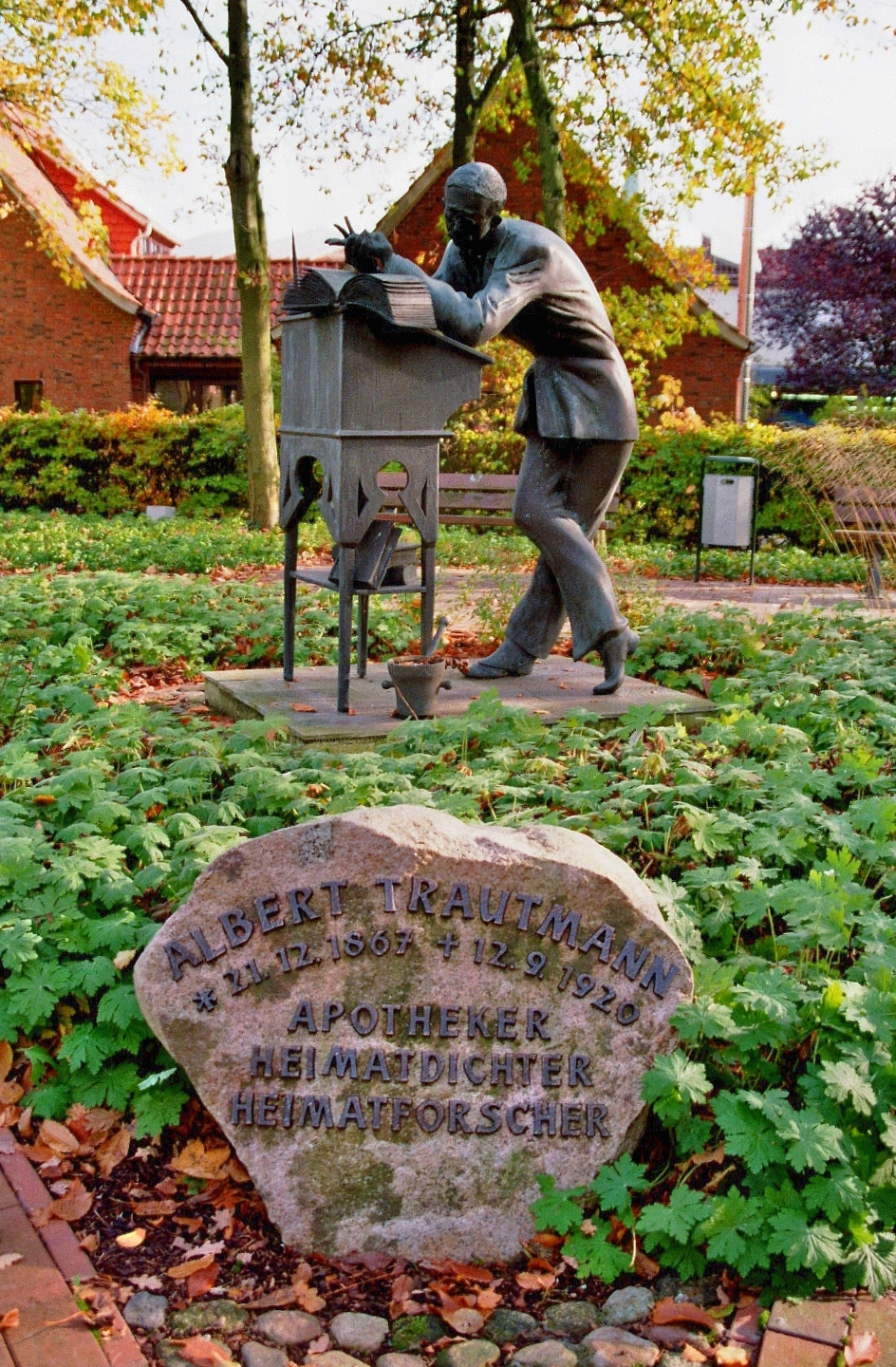 The Albert Trautmann Memorial (Albert-Trautmann-Denkmal) in Werlte, Landkreis Emsland, Lower Saxony, Germany. The bronze sculpture by Hans Gerd Ruwe was errected in 1989.